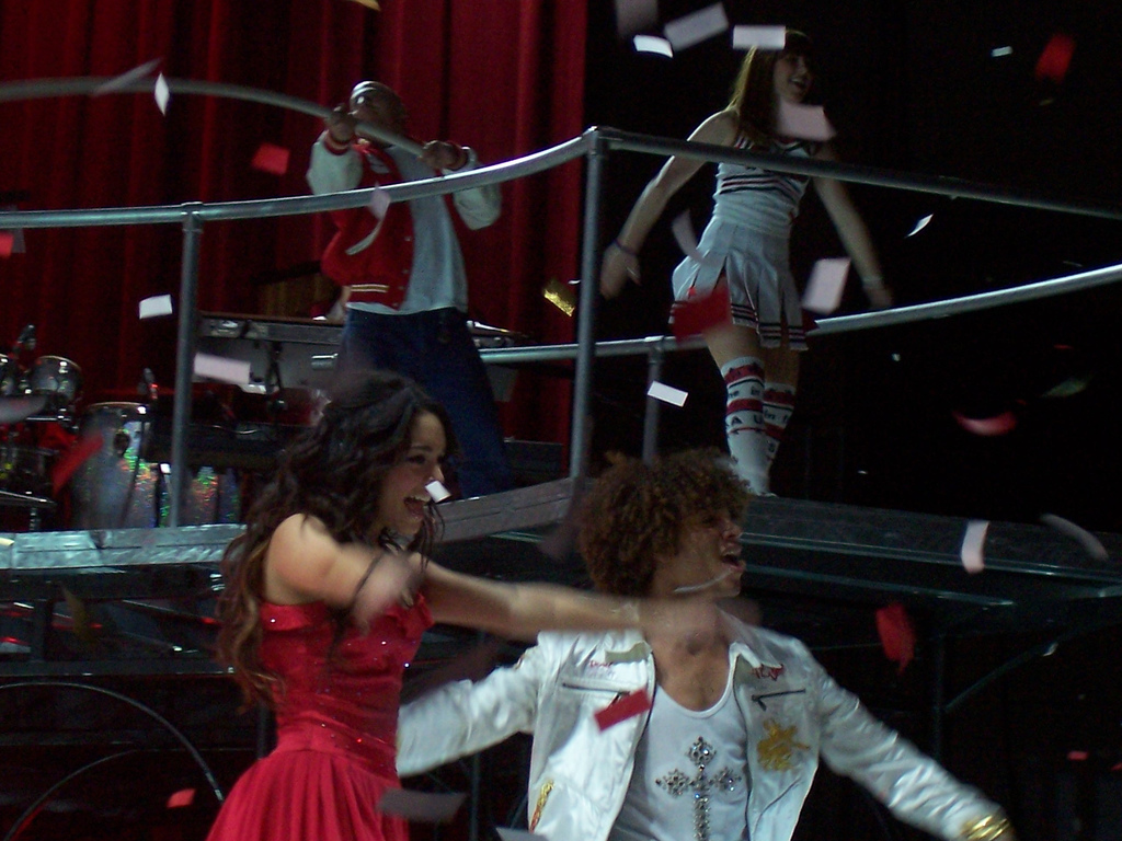 We're All in This Together